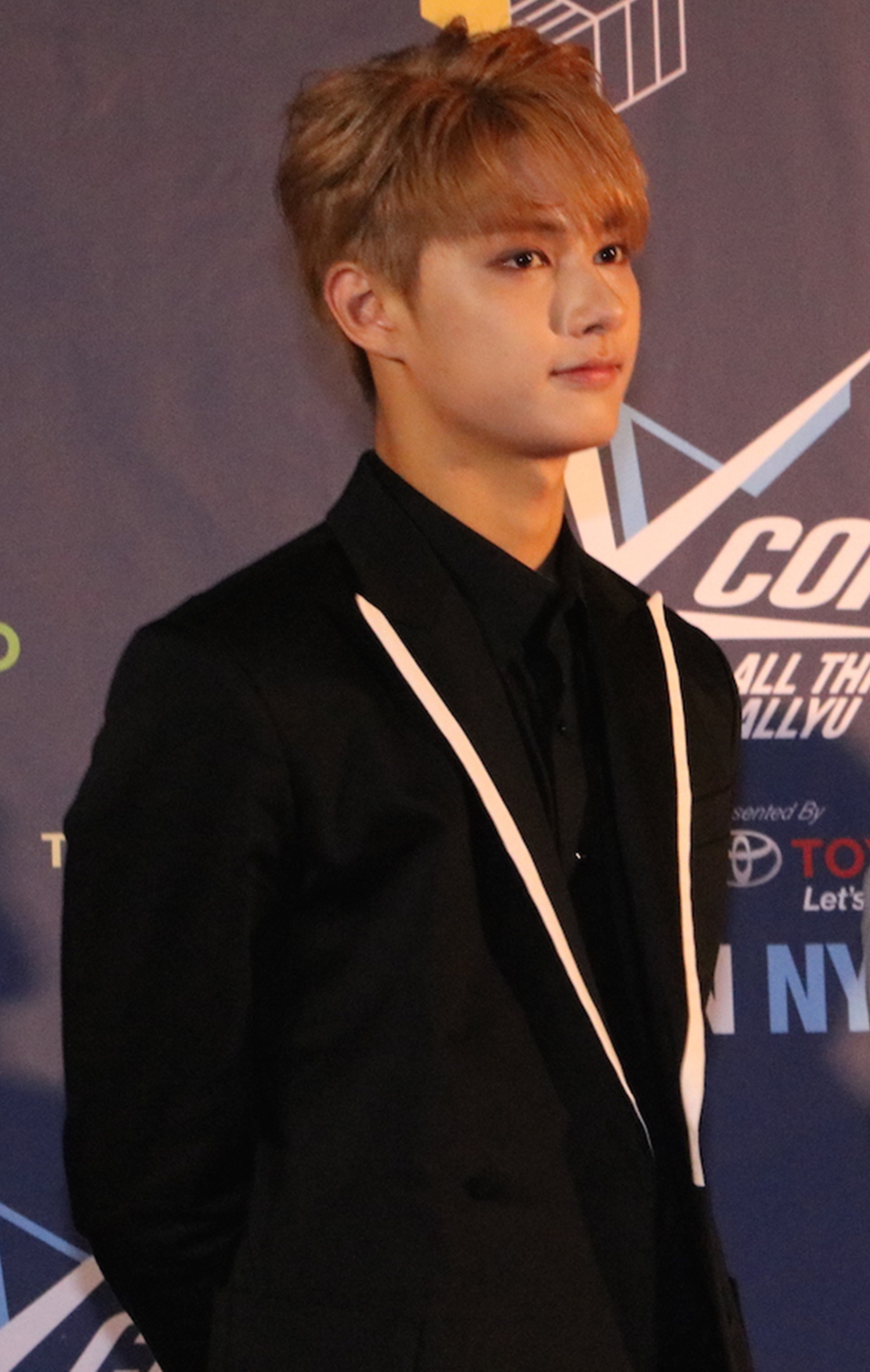 Jerry Wen during the KCON New York press conference on June 24, 2016.